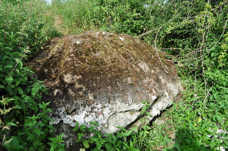 The Merton Stone, near to Threxton Hill, Norfolk, Great Britain. The stone is a large glacial erratic of both geological and local importance. Yet sadly it isn't known very well. Geologically the composition is unknown, probably a calcareous grit of some kind. Sources say it comes from a range of places like Oxford, Sunderland and even Scandinavia! There is a very nice ammonite in the centre of the stone which shows it is certainly sedimentary. The 20 ton boulder is the largest erratic of its type in Norfolk and possibly England. It was moved here during the last ice age when ice picked it up and dumped it here. It is now in a marl pit just off Peddars way.